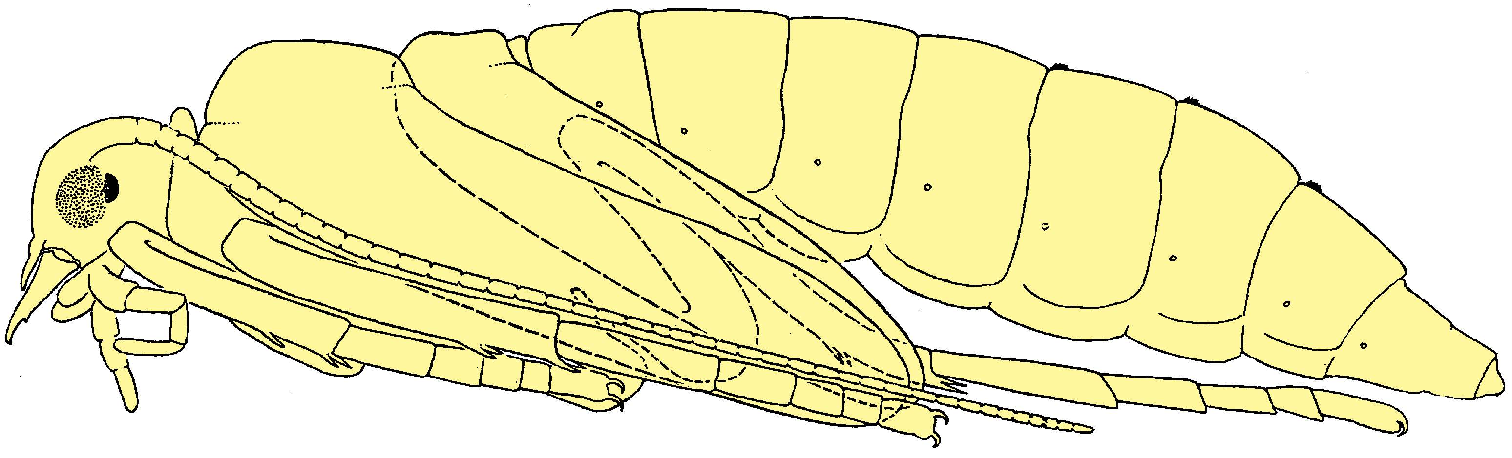 Pupa of caddisfly Rhyacophila nubila